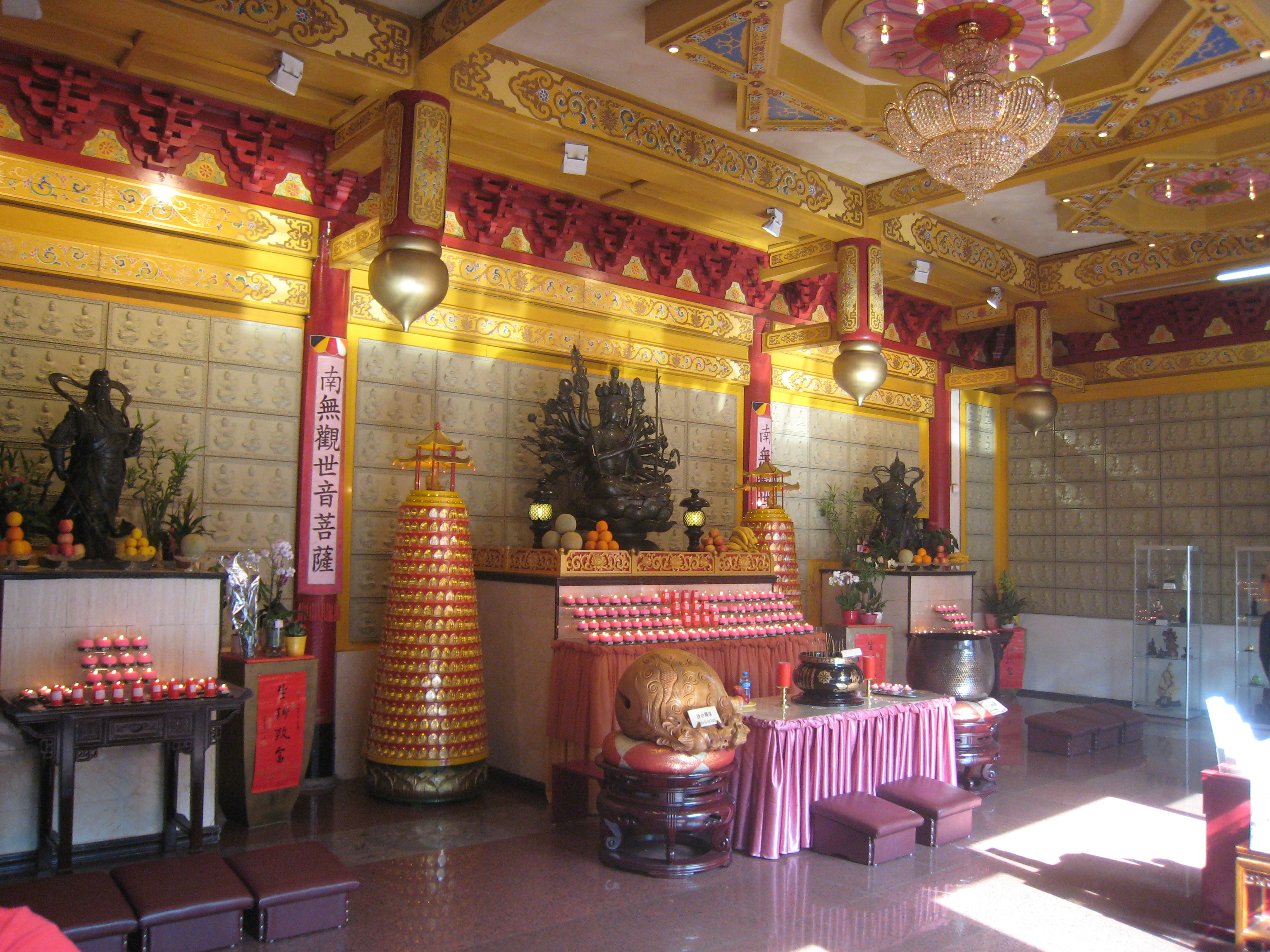 He Hua tempel, Amsterdam